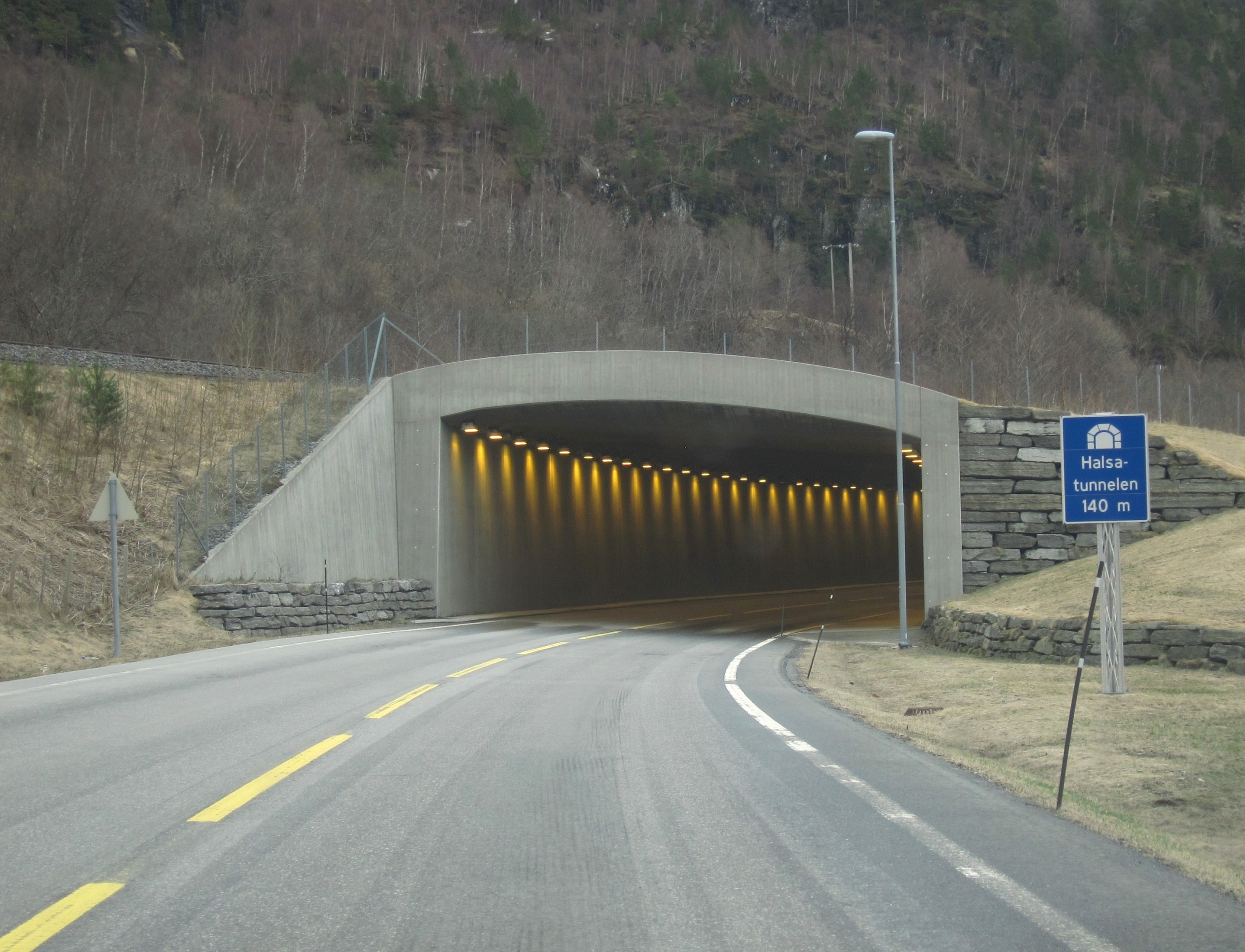 Halsa road tunnel on highway E136, Rauma municipality, Norway.